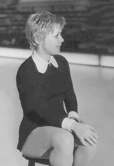 1974 Press Photo Tennis star Billie Jean King and Skating Champ Karen Magnussen